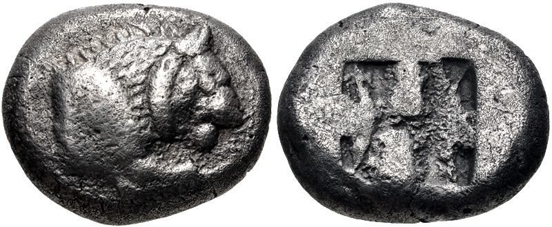 CARIA, Mylasa. Circa 520-490 BC